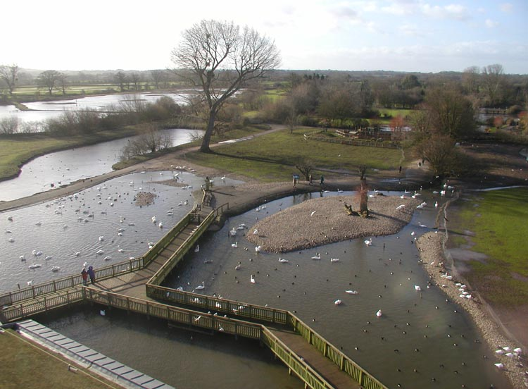 The view in winter from the Sloane Observation Tower at Slimbridge Wildfowl and Wetlands Centre, Gloucestershire, England.